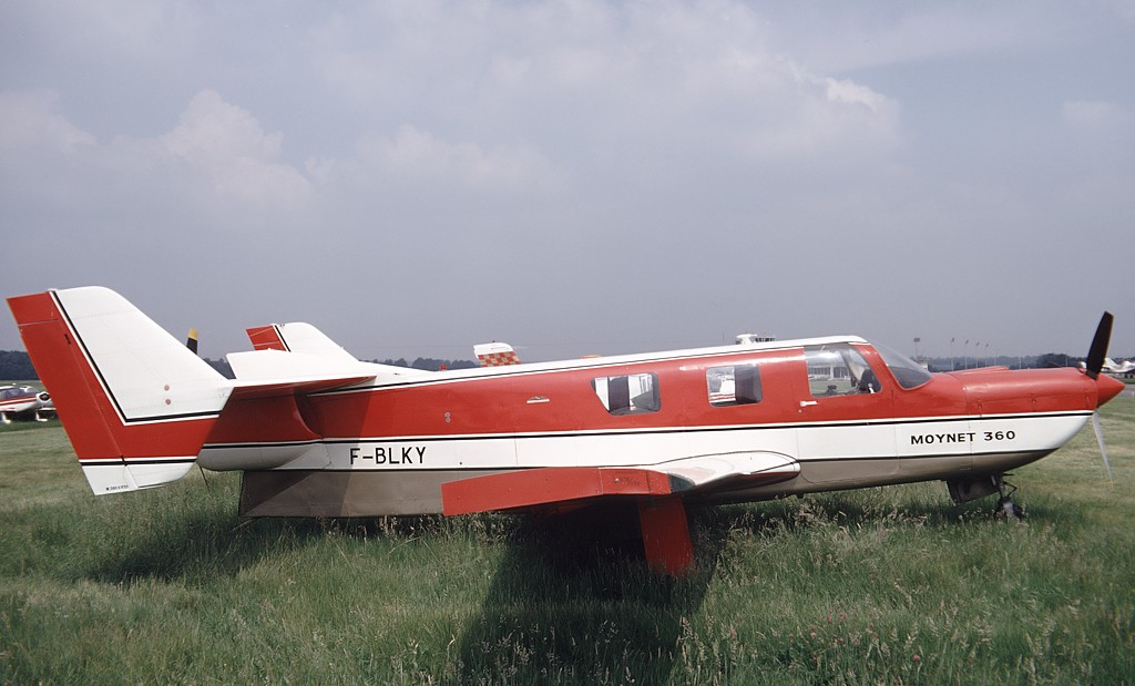 The second of the two Moynet Jupiters built. This is the enhanced 36-6 model. Photograph taken at Toussus-le-Noble airfield near Paris.